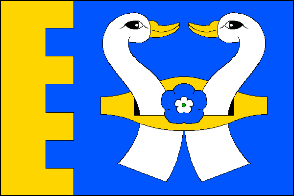 Municipal flag of Lhota Rapotina village, Blansko District, Czech Republic.